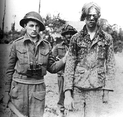 A captured Panzergrenadier of the Hitlerjugend taken by a Canadian Intelligence Unit during the fighting for Caen. The official Public Archives of Canada caption for this photo taken a month after the activities in question, contains no information about the prisoner other than his division. Note: both allied soldiers are wearing the British P-1944 "Turtle" Mk III steel helmet, which was introduced shortly before D-Day. The Mk III helmet was much superior to the conventional "Brodie" helmet normally worn by British & Commonwealth soldiers. The soldier nearest the camera is holding a .303" Lee Enfield rifle in his right hand.